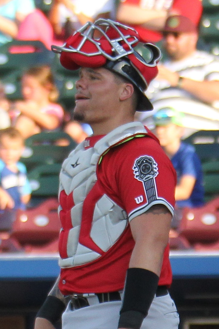 Bruce Maxwell of the Nashville Sounds Minda Haas Kuhlmann | 2018 USAGE INSTRUCTIONS: You are welcome to share or publish to your own site or social media account, but you MUST credit me, Minda Haas Kuhlmann. Twitter: @minda33. Instagram: minda.haas